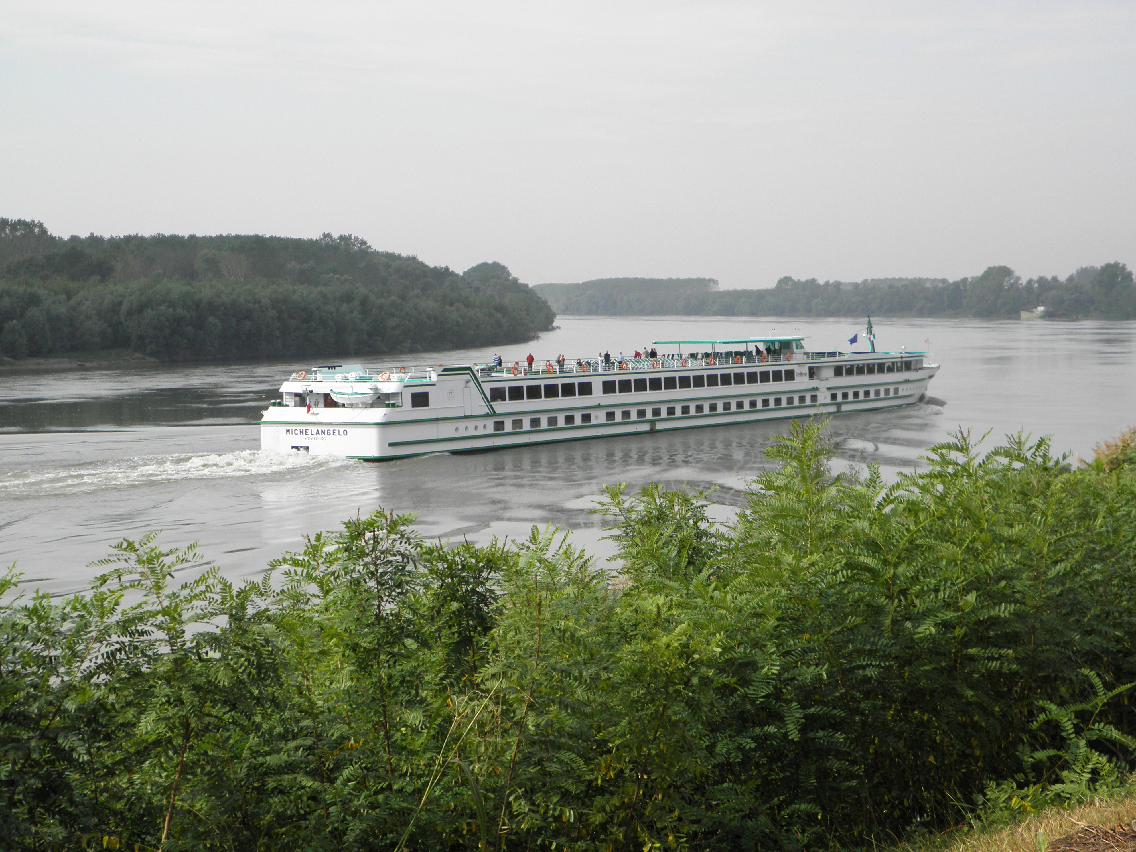 River cruise ship Michelangelo on Po River in Guarda Veneta municipality, province of Rovigo.